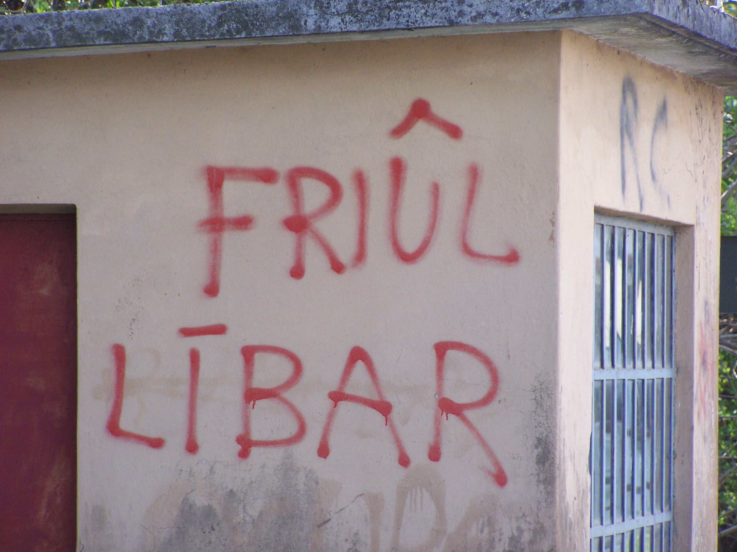 Mural with the text "Friûl libar" (Free Friuli) in Aiello del Friuli, Italy.